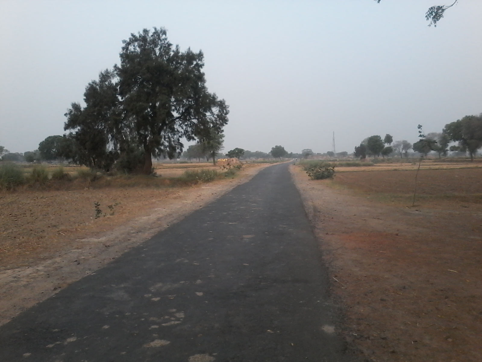 The Road is connect to Bhidauni village & Surir village to main that connects farmers ! Before the road was broken and was pretty useless ' is so designed that again ! It 's great!